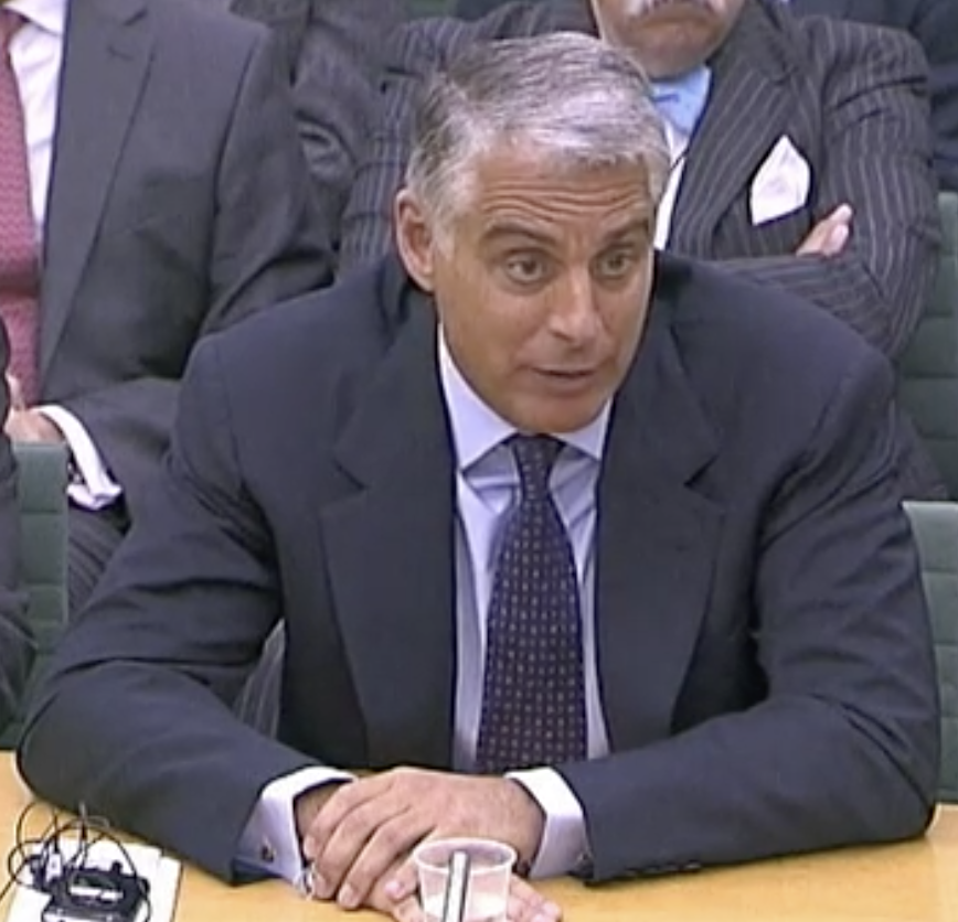 Italian investment banker Andrea Orcel testifying ahead of the UK Parliamentary Commission on Banking Standards, 2013.